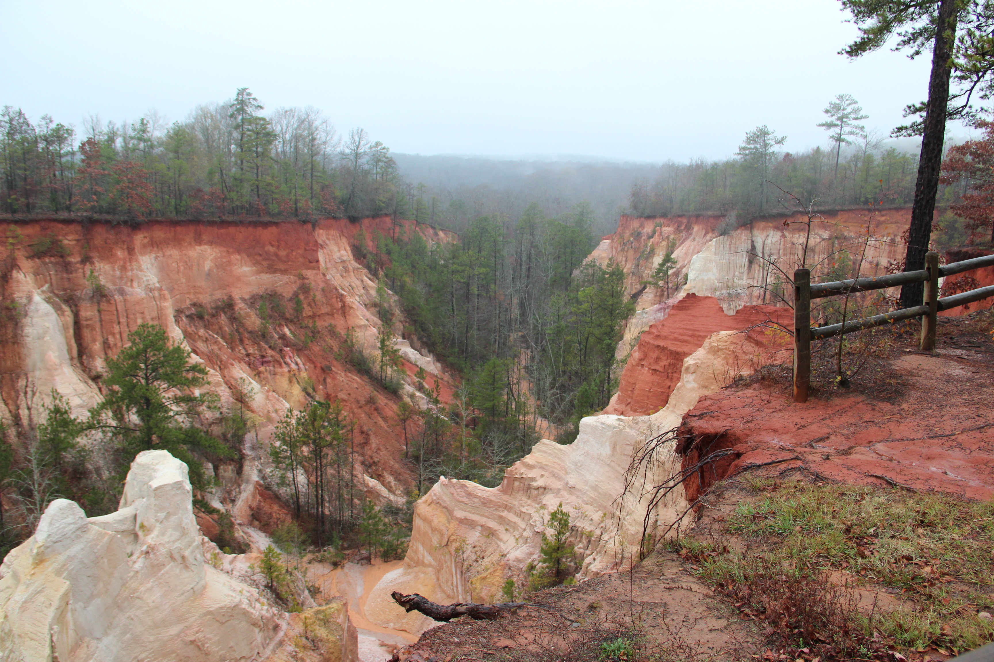 Providence Canyon State Park overlook